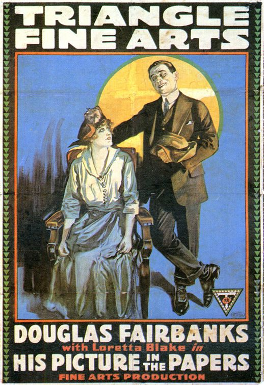 Movie poster for His Picture in the Papers